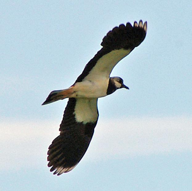 Lapwing seen near Winteringham For more information on the Lapwing